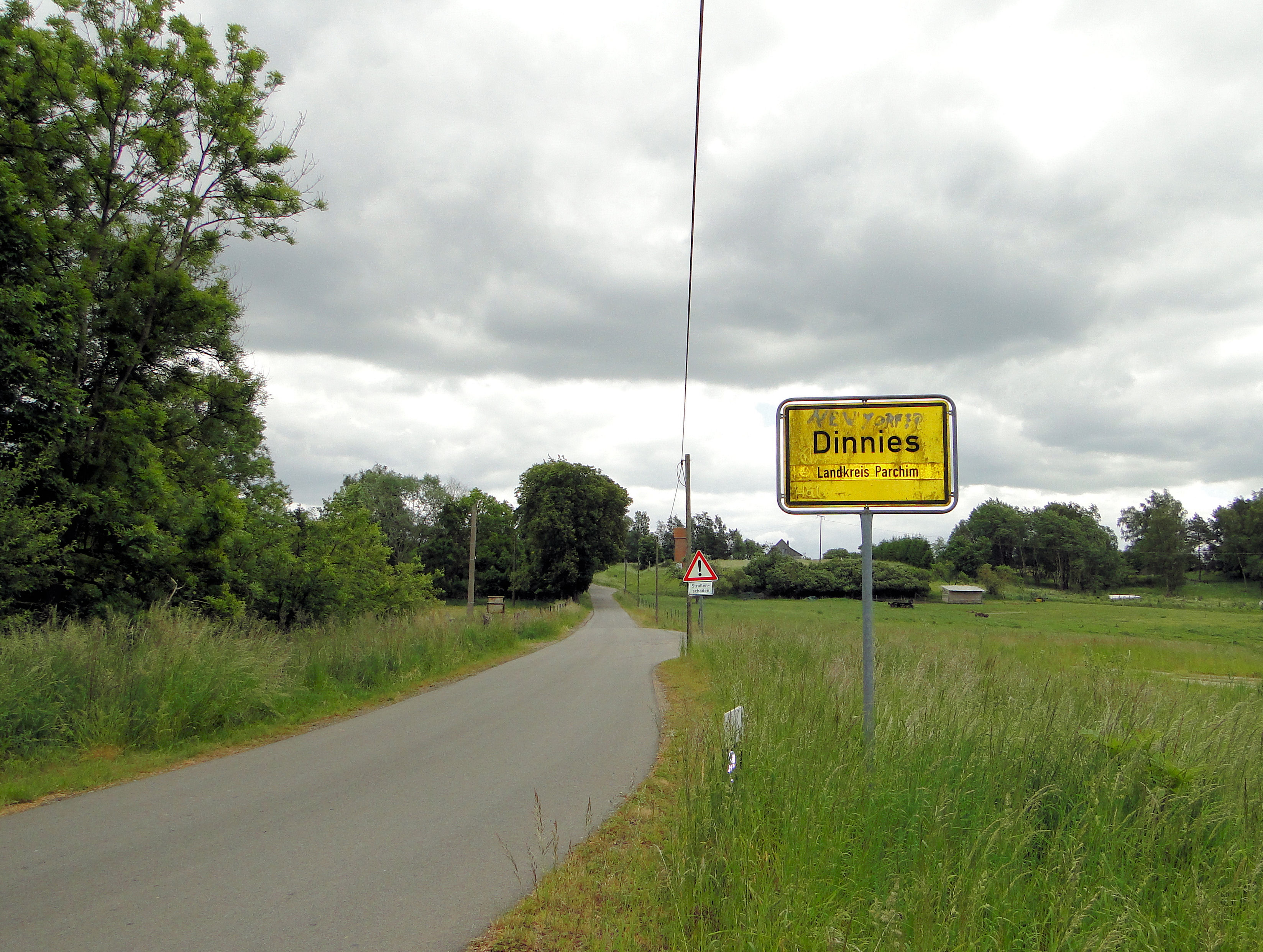 View of Dinnies, district Ludwigslust-Parchim, Mecklenburg-Vorpommern, Germany